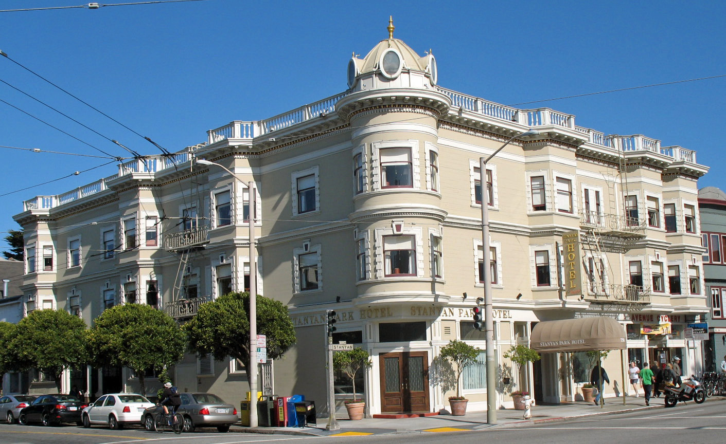 National Register of Historic Places in San Francisco, California. Stanyan Park Hotel, 750 Stanyan St., San Francisco, California, USA. Listed on the National Register of Historic Places as the Park View Hotel. Photographed from the northwest corner of Stanyan and Waller Sts.